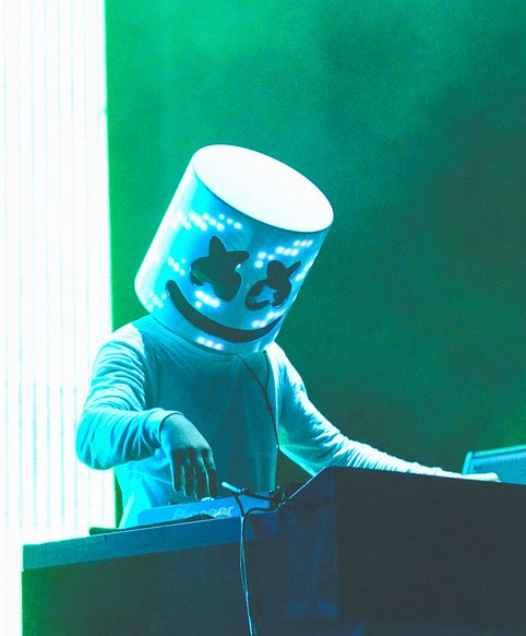 Marshmello performing at the Mad Decent Block Party at the Fort York Garrison Commons in August 19th, 2016